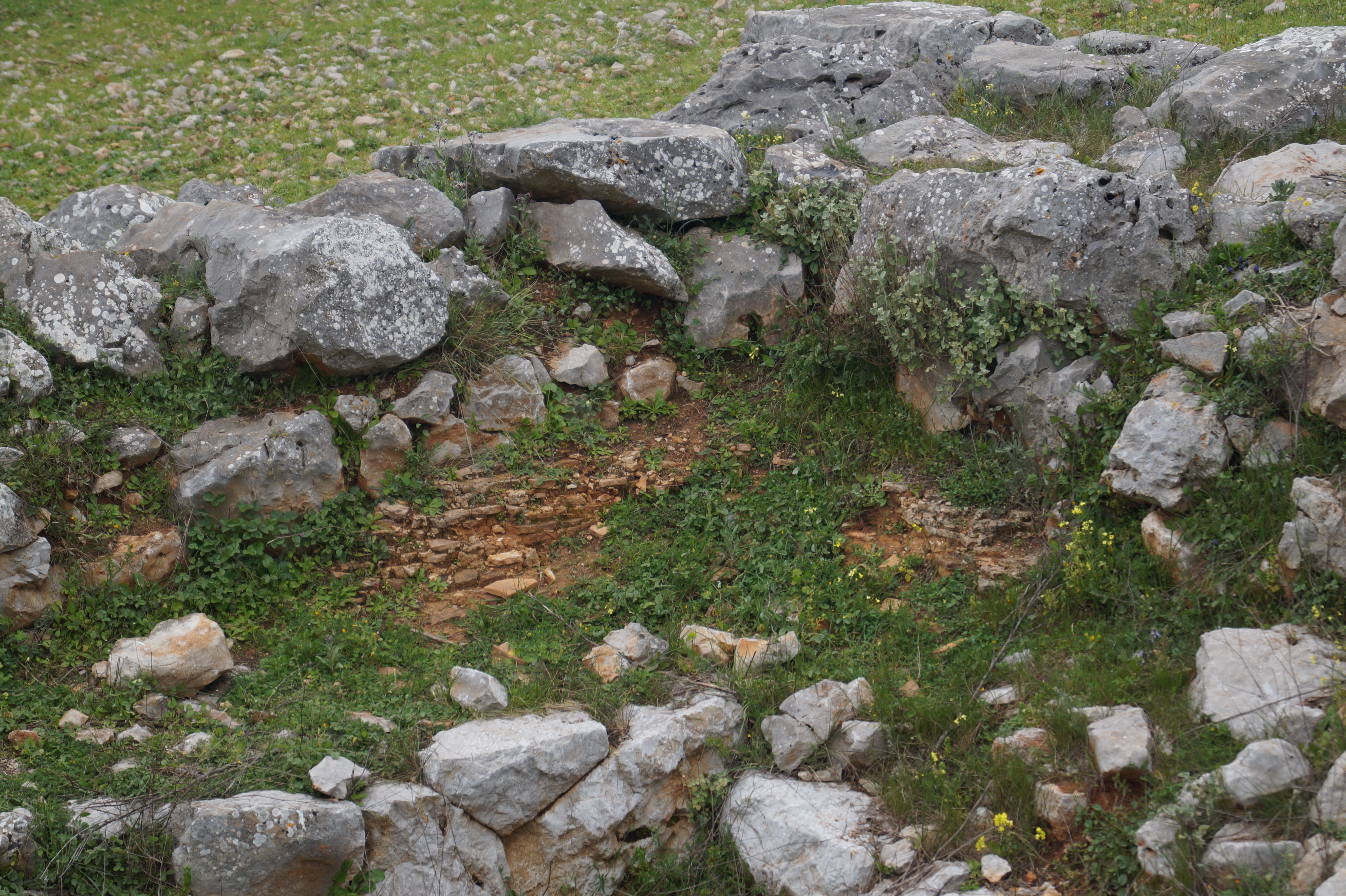 Lygourio, Argolis, Greece: Pyramid of Lygourio, west corner with brick and tile lining.